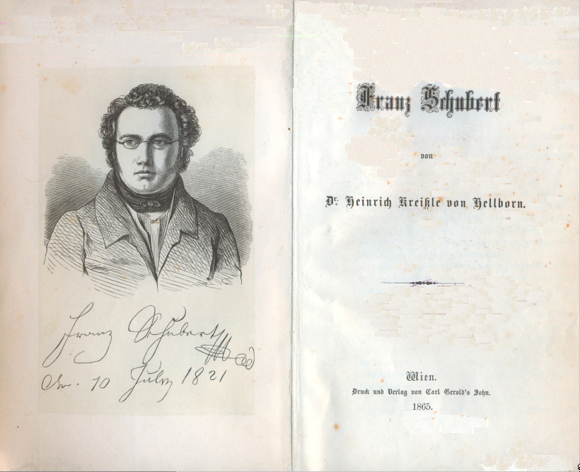 KREISSLE Schubert 1865